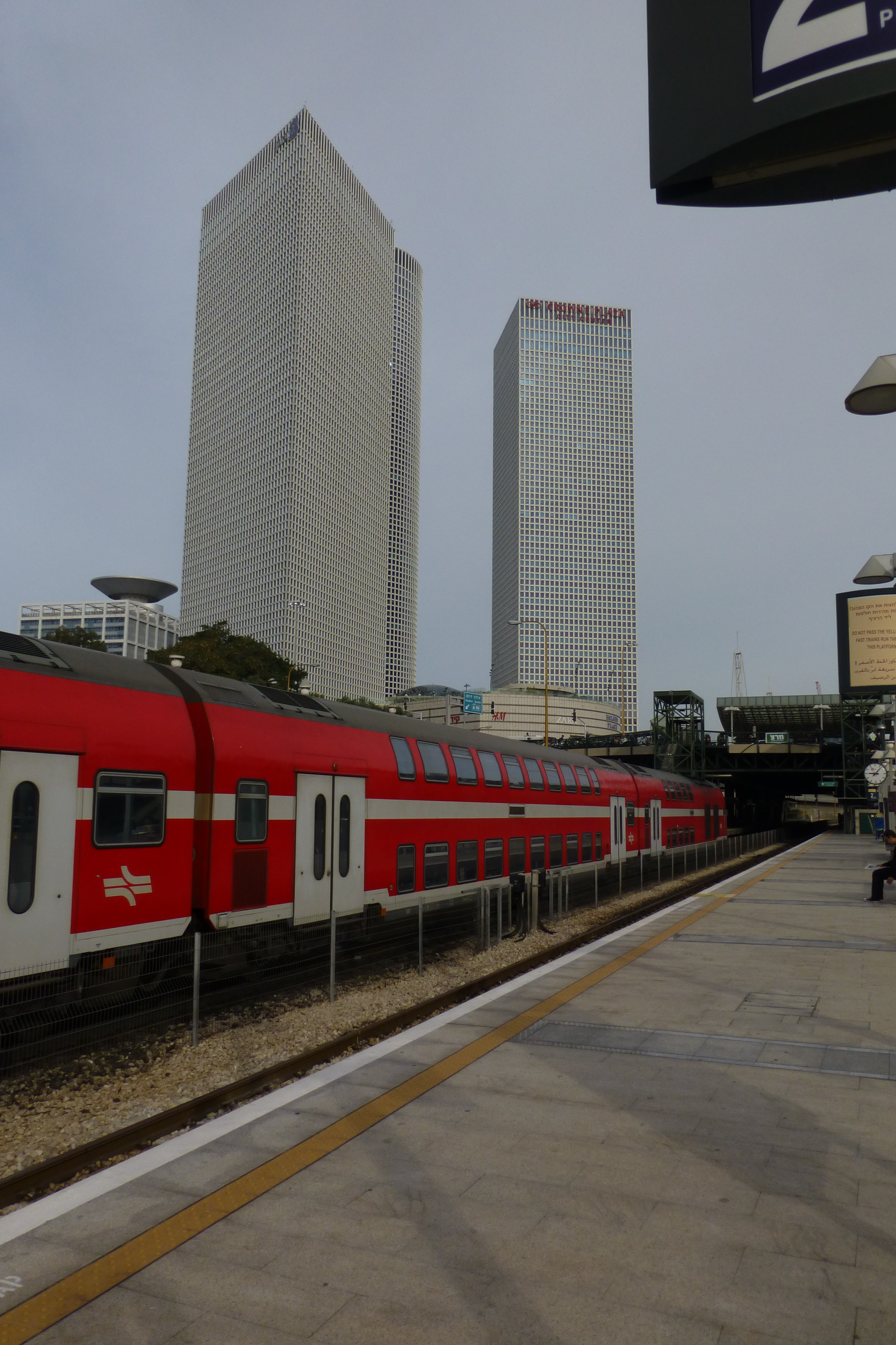 Tel Aviv HaShalom train station